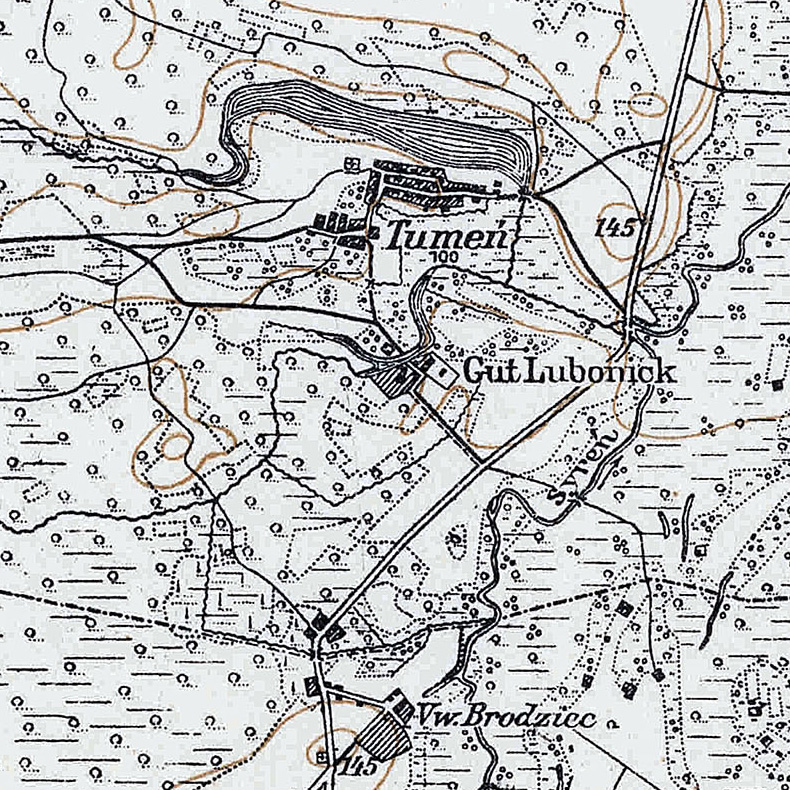 Brodets on the map "Karte des Westlichen Russlands", T 34, 1917. According to Digital Repository of Scientific Institutes and Kujawsko-Pomorska Digital Library the map is in the public domain.